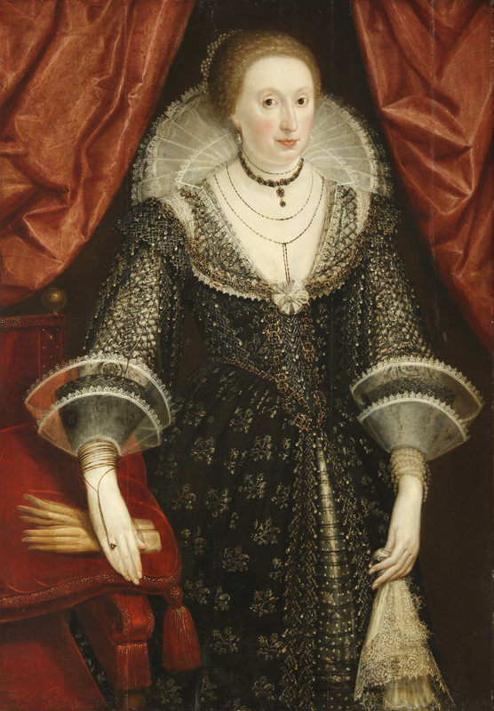 British (English) School; Anne Spencer (d.1618), Successively Lady Monteagle, Lady Compton and Countess of Dorset; National Trust, Knole